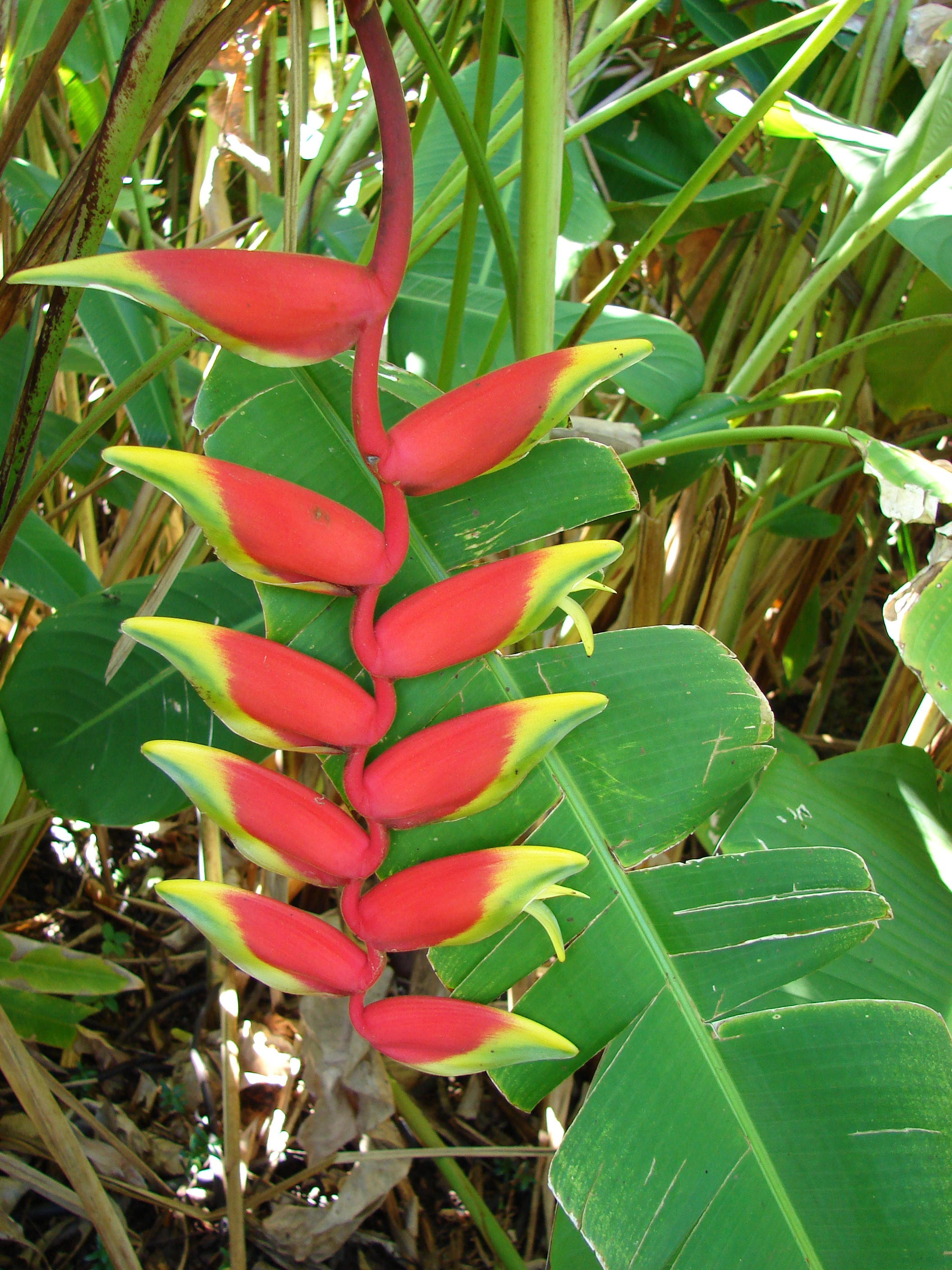 Heliconia rostrata (flowers). Location: Maui, Enchanting Floral Gardens of Kula